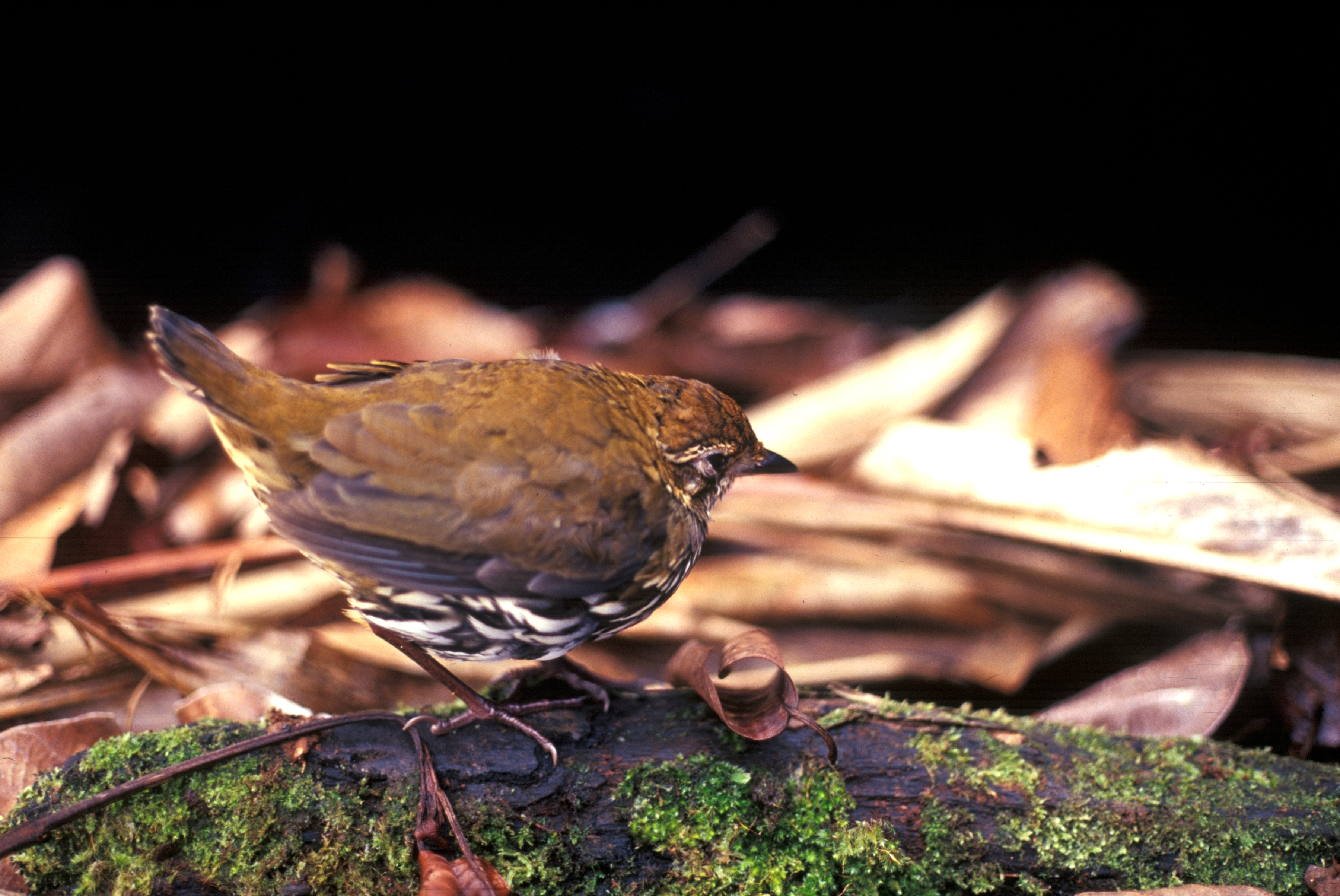 Striated Antthrush (Chamaeza nobilis) in Ecuador